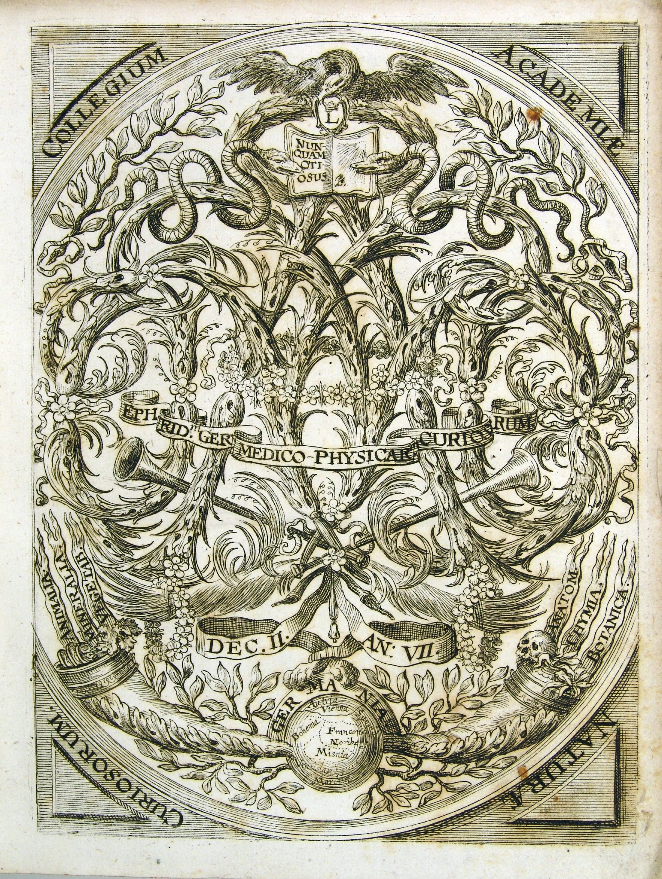 Frontispiece of the first German scientific journal Miscellanea Curiosa (Decuria II, Annus VII = 1688). The Miscellanea Curiosa have been published by the Academia Naturae Curiosorum (Leopoldina) since 1670. (Collection W. Michel, Fukuoka)